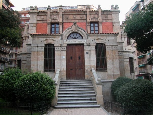 Biblioteca Municipal Gabriel y Galán